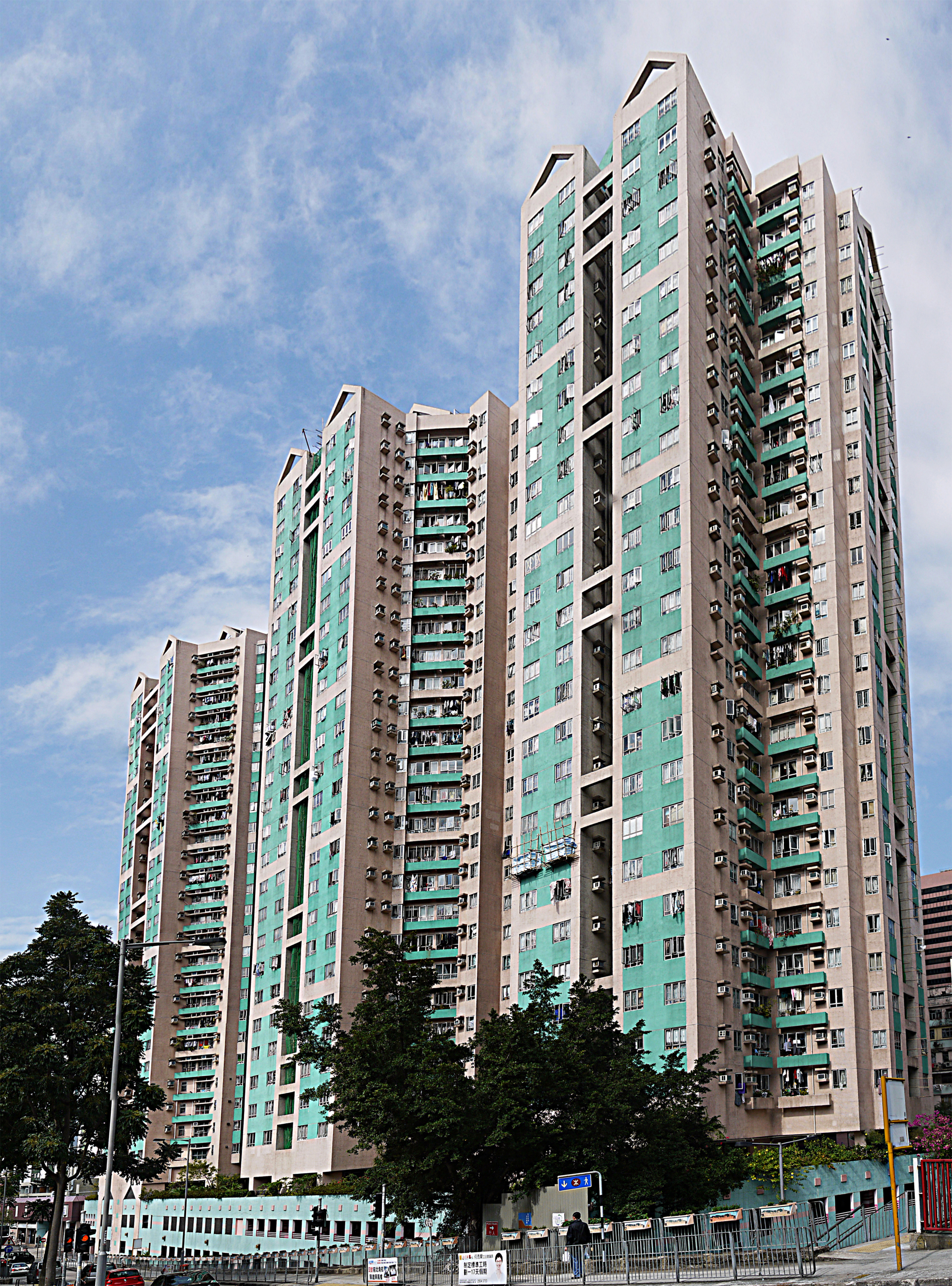 Hv1 small